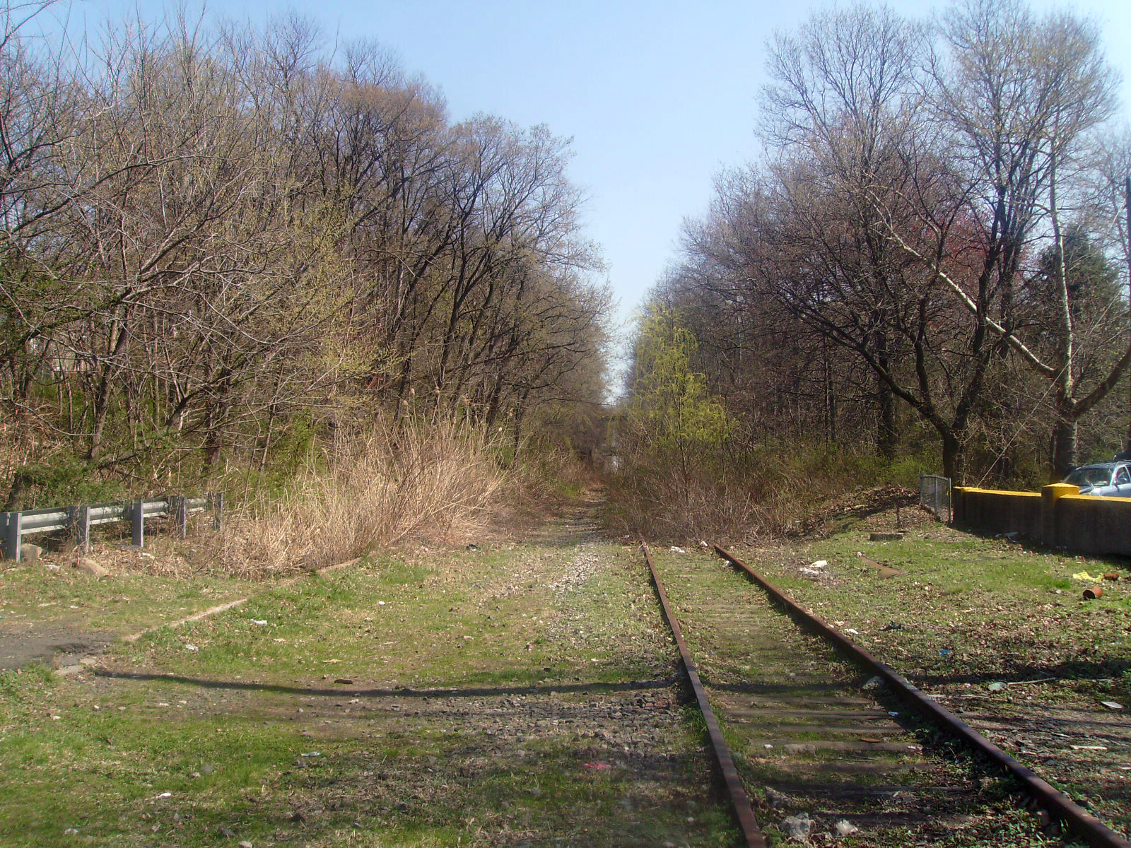 The West Arlington Station site in Arlington, Kearny, New Jersey. The station was burned down in the late 1970s and has remained similar to this since then. The line has since been abandoned, however. The site is located at Passaic Avenue and N. Midland Avenue, next to the bridge carrying the tracks over the Passaic River.